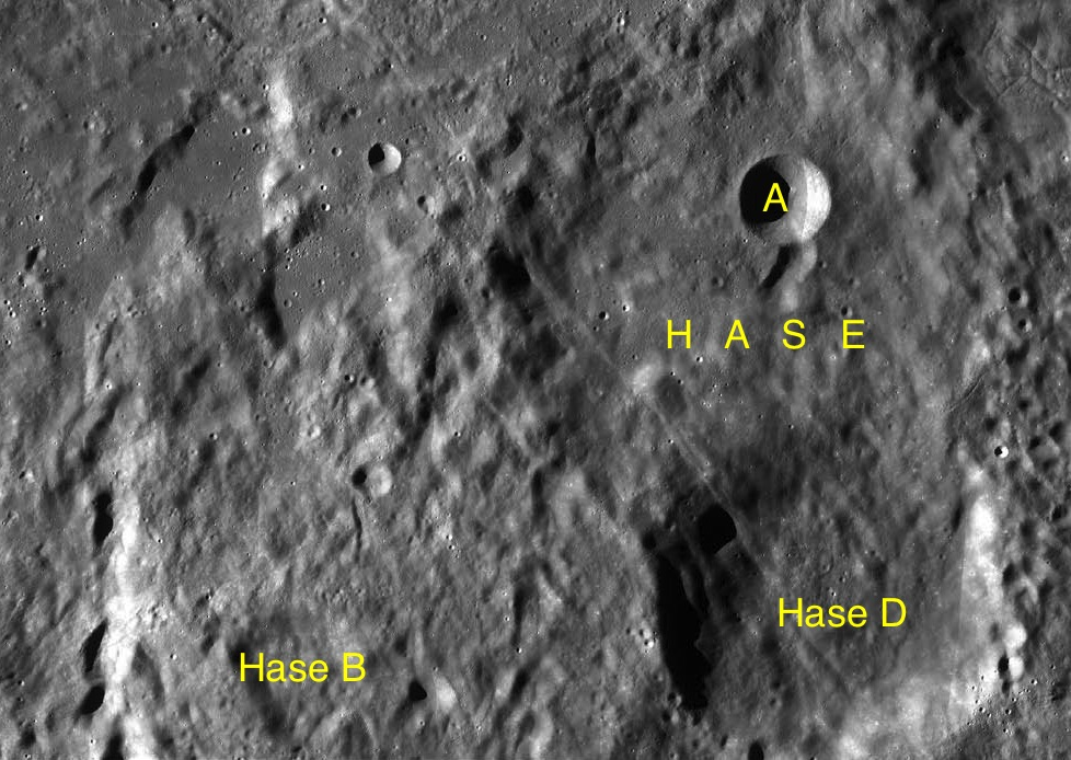 Part of the chart LAC-98